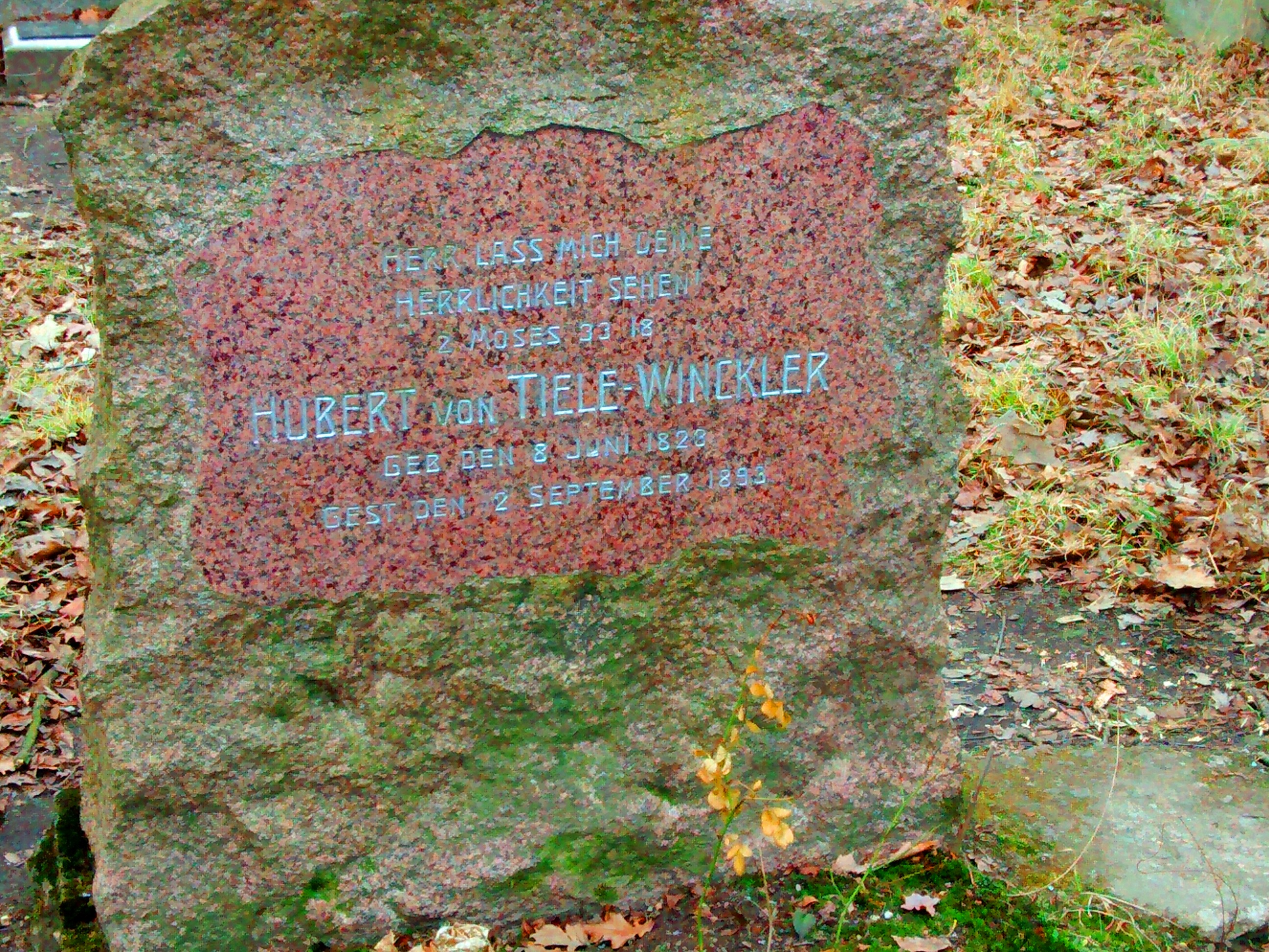 Tiele-Winckler family gravesite in Moszna - Hubert Tiele-Winckler